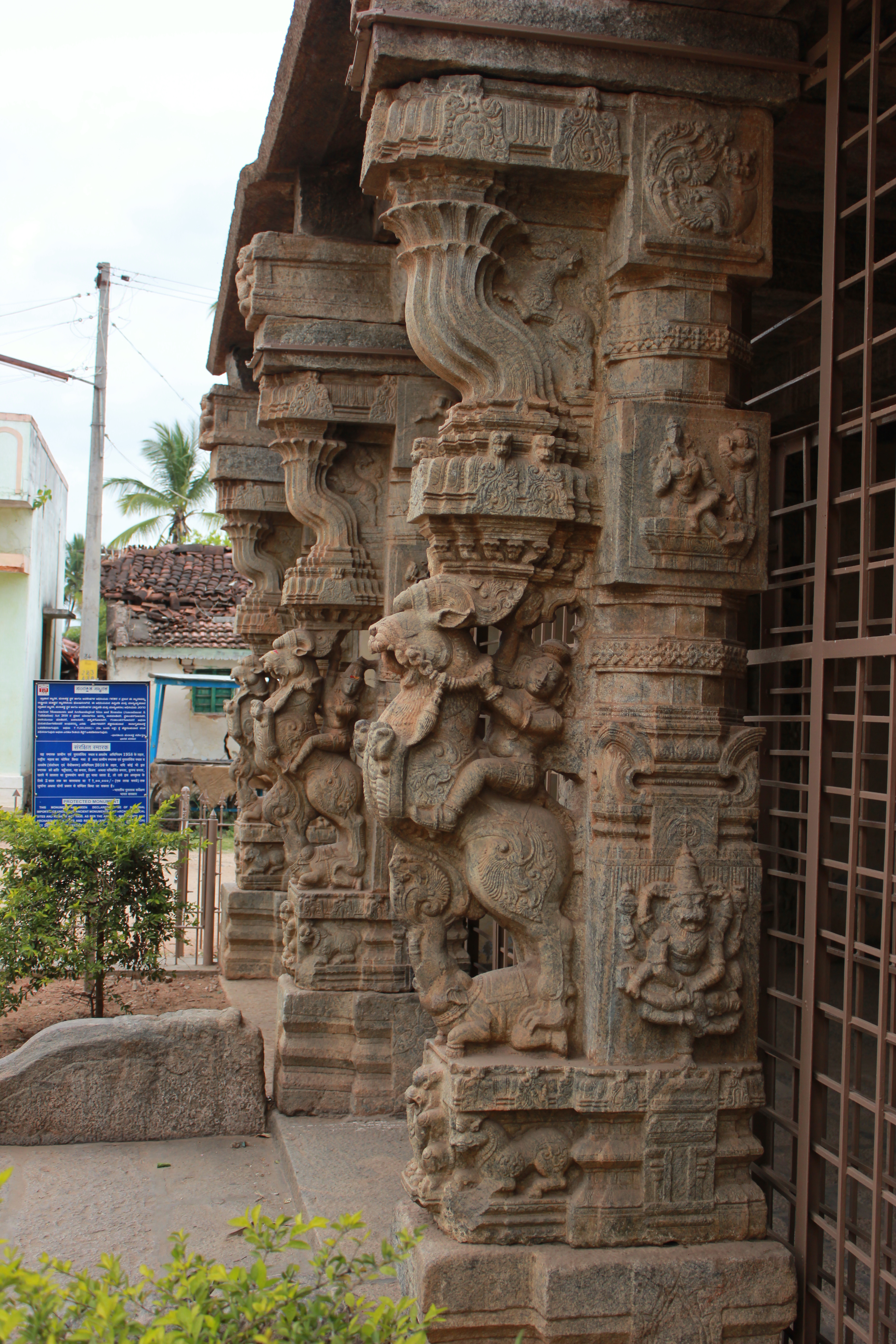 This photograph was taken by me at the Vijayanarayana temple in Gundlupet, Chamarajanagar district, Karnataka state, India. The temple was initially constructed by the 10th century Western Ganga dynasty of Talkad and has received patronage from the Hoysala and Vijayanagara empires upto the the 15th century.